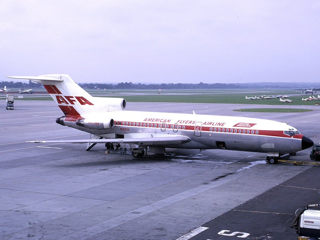 American Flyers Airline Boeing 727-185C at London Gatwick Airport